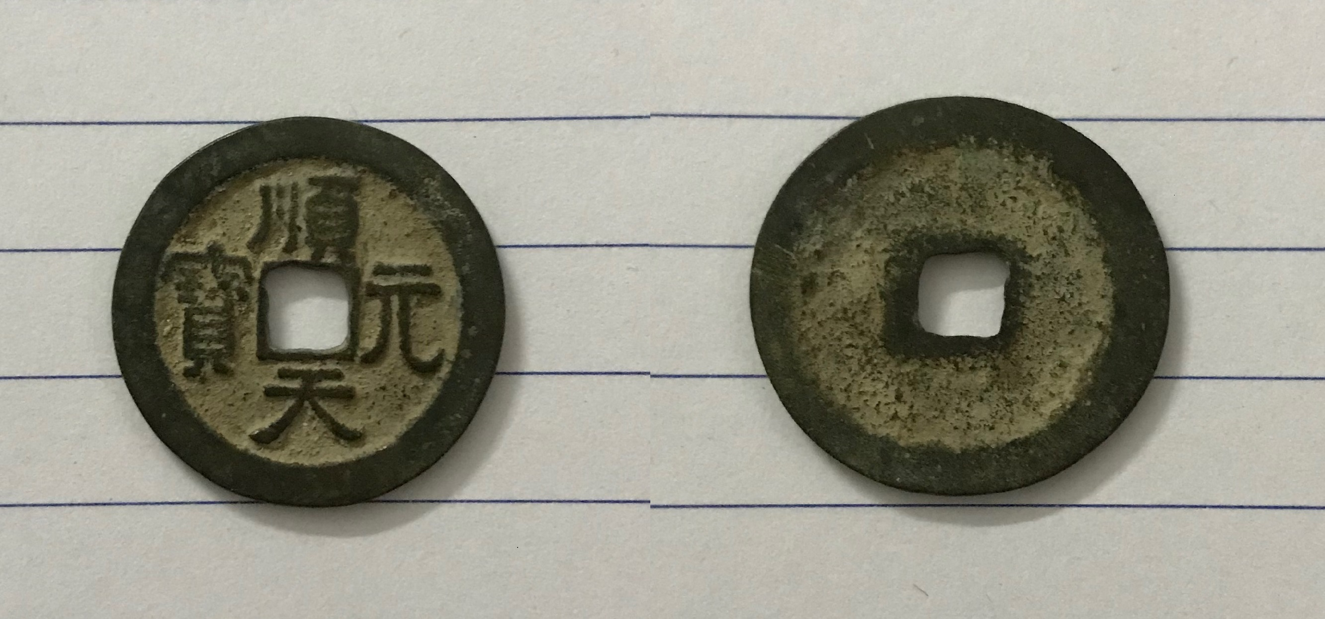 đồng tiền "đồng tiền "thuận thiên nguyên bảo" do vua Lê Thái Tổ cho đúc sau khi lên ngôi